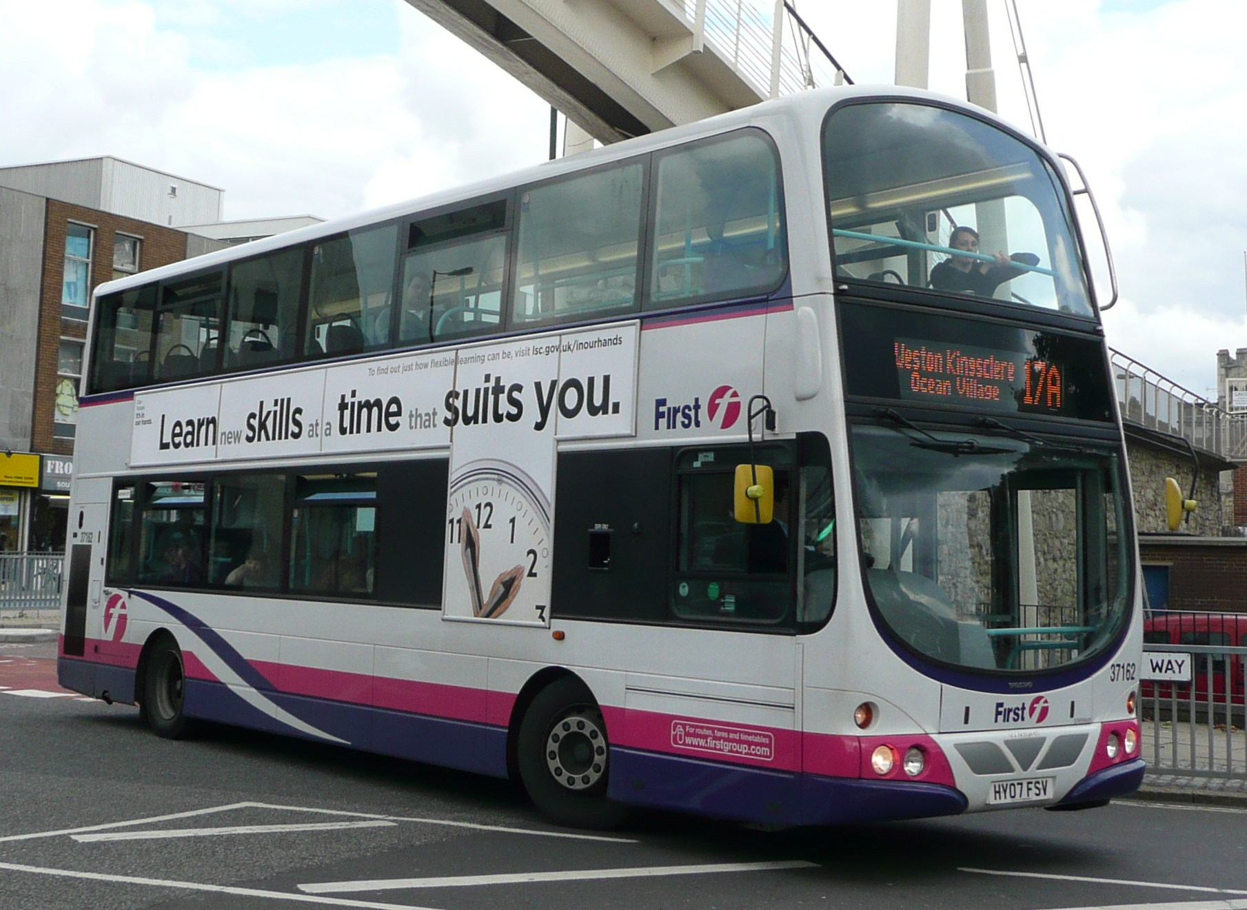 First Hampshire & Dorset's 37162 (HY07 FSV), a Volvo B7TL/Wright Eclipse Gemini in Southampton, England. The bus it usually allocated to and was bought for routes 8/8A, but is seen here with other ideas while on route 17.